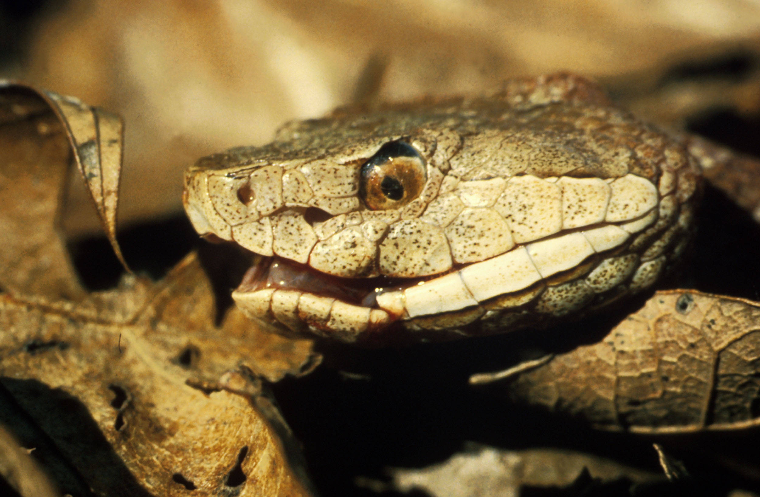 Close up of head of the copperhead (Agkistrodon contortrix).